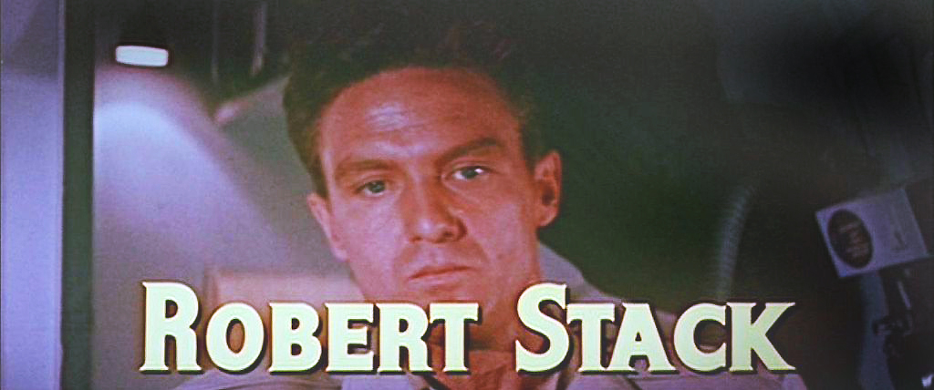 Screenshot showing Robert Stack from the film The High and the Mighty.